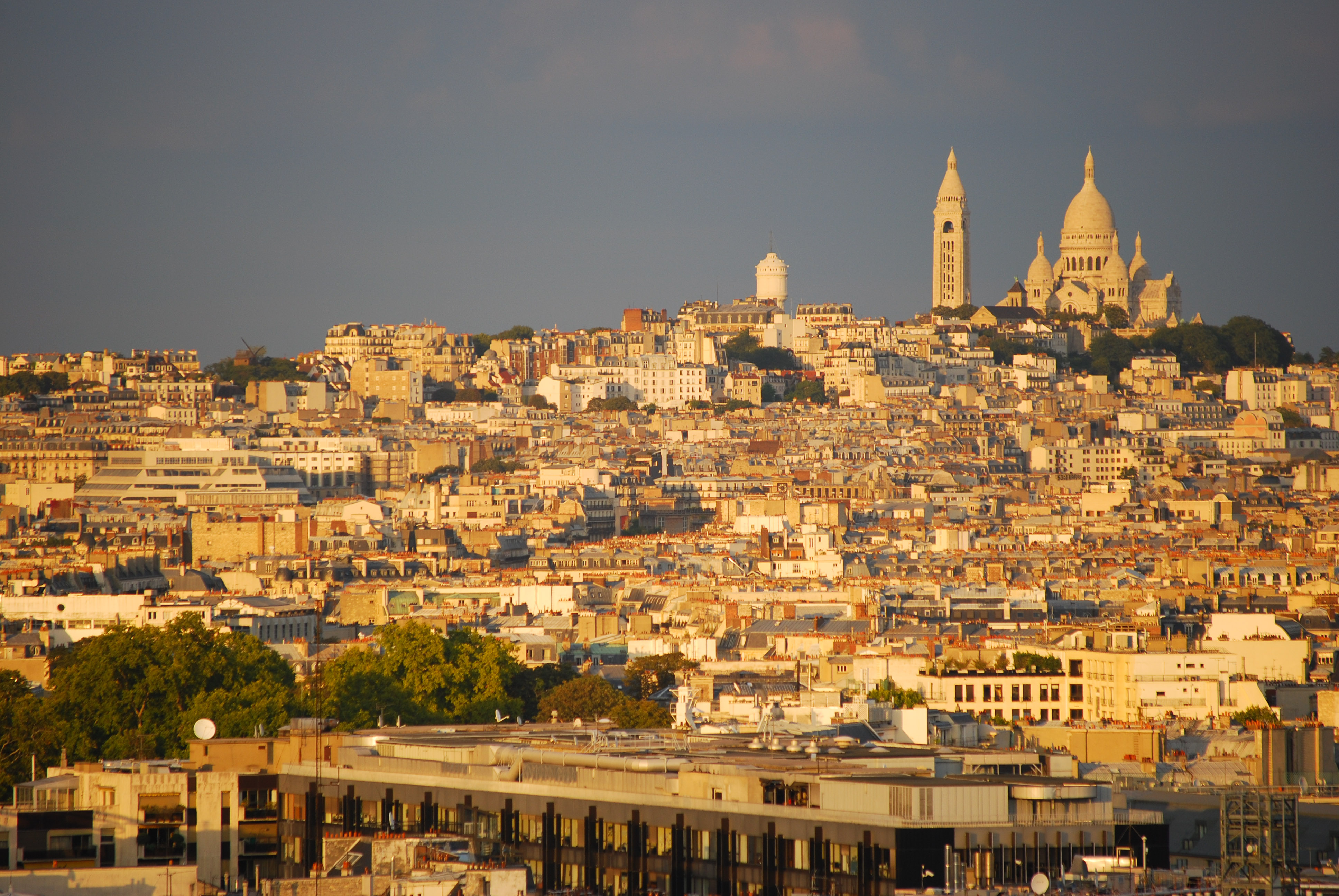 Remote views of Montmartre Sunsets of Paris